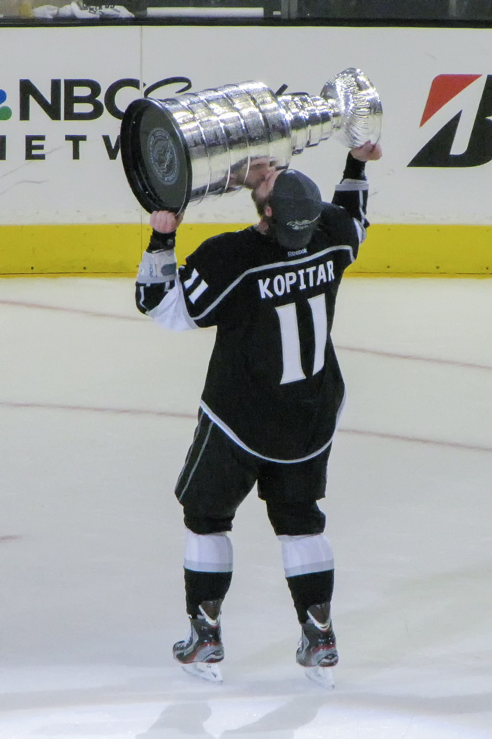 In April 2013 the Kings posted a nice video about receiving The Stanley Cup